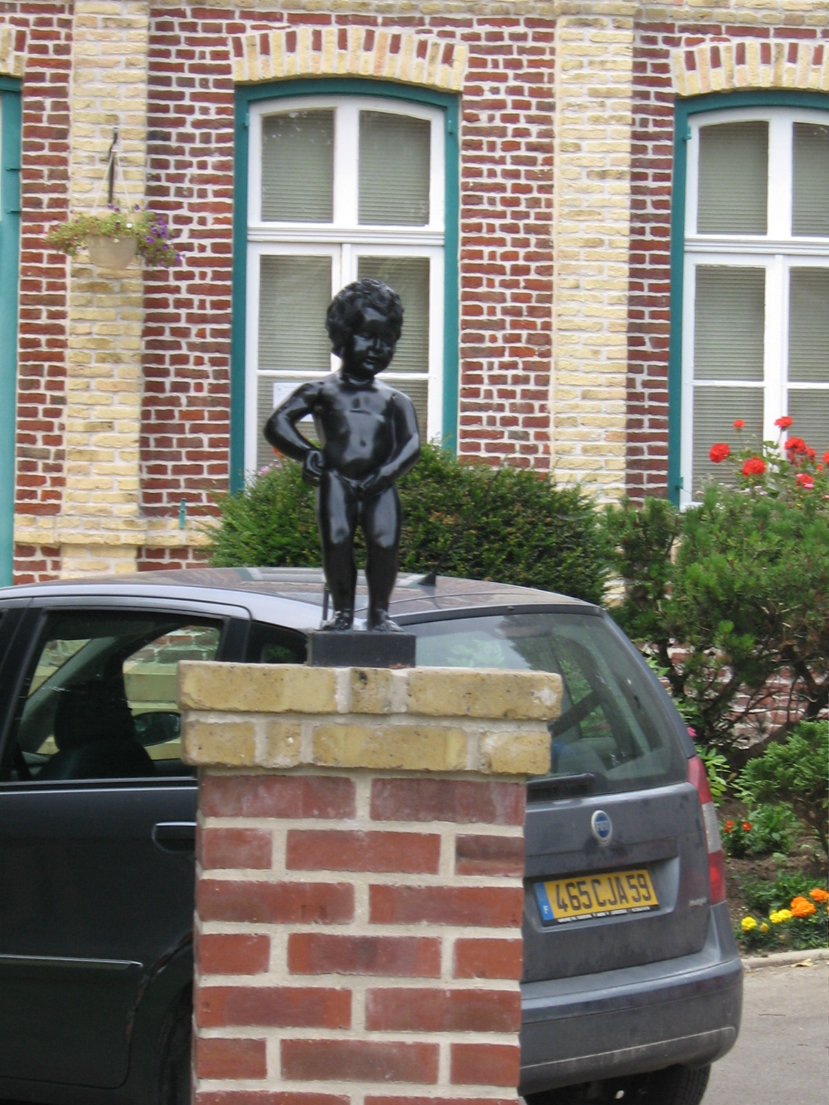 Zie beschryvynge by/zie beschrijving voor/voir description de/see description to File:BrokseleMannekenPis1.jpg